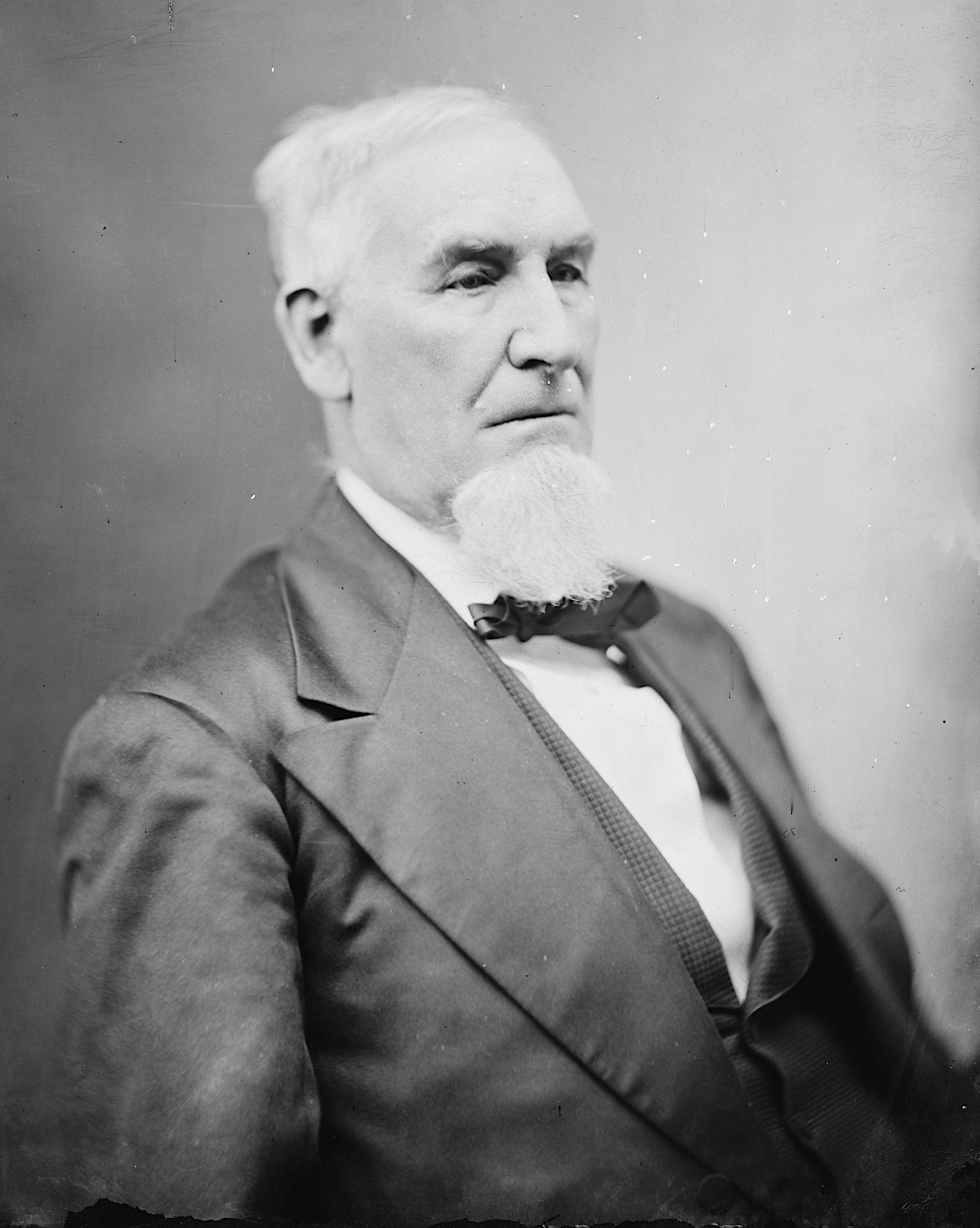 Samuel Price. Library of Congress description: "Price, Hon. Samuel of W.Va.".